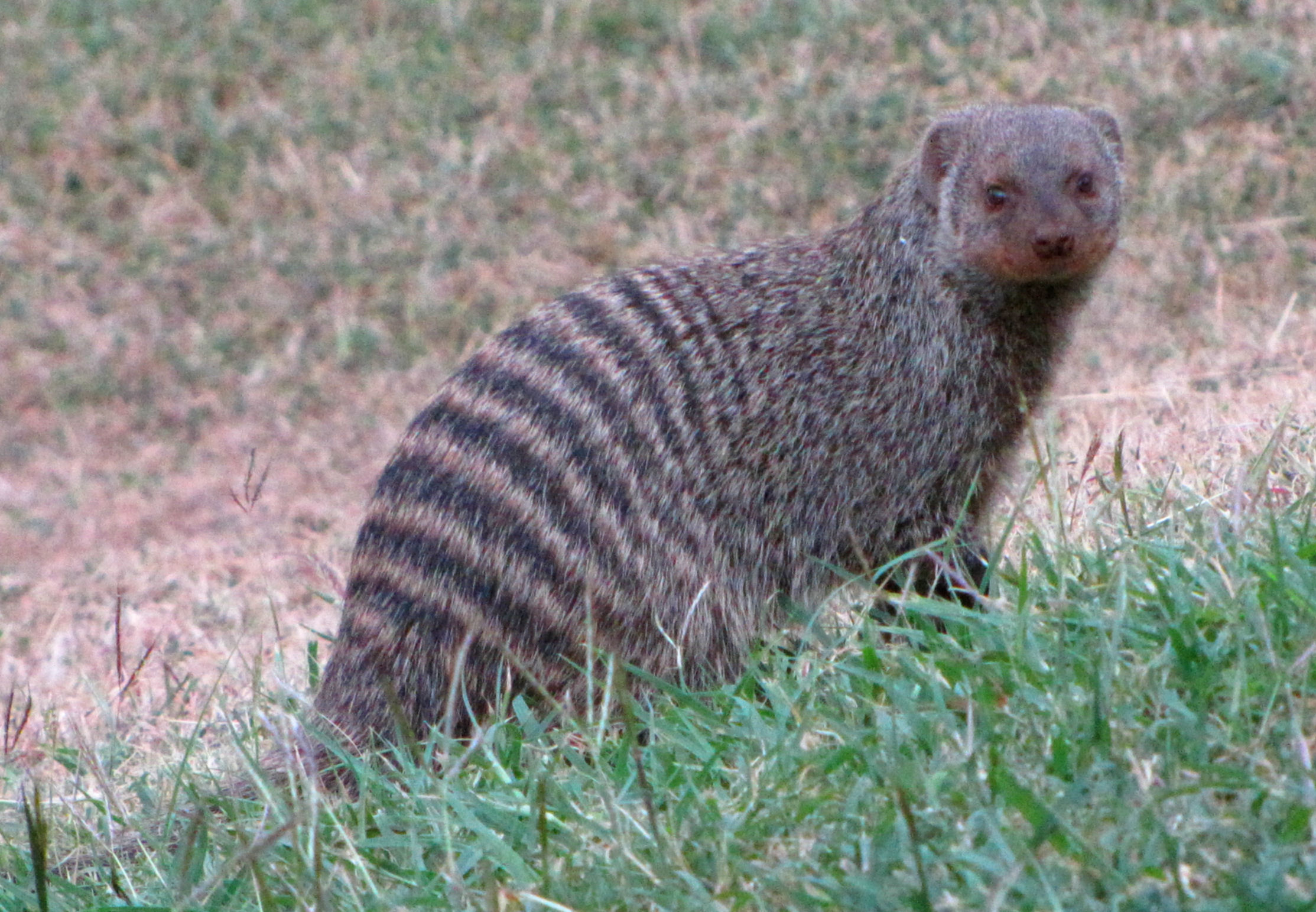 Banded Mongoose (Mungos mungo), Lake Manyara, Tanzania